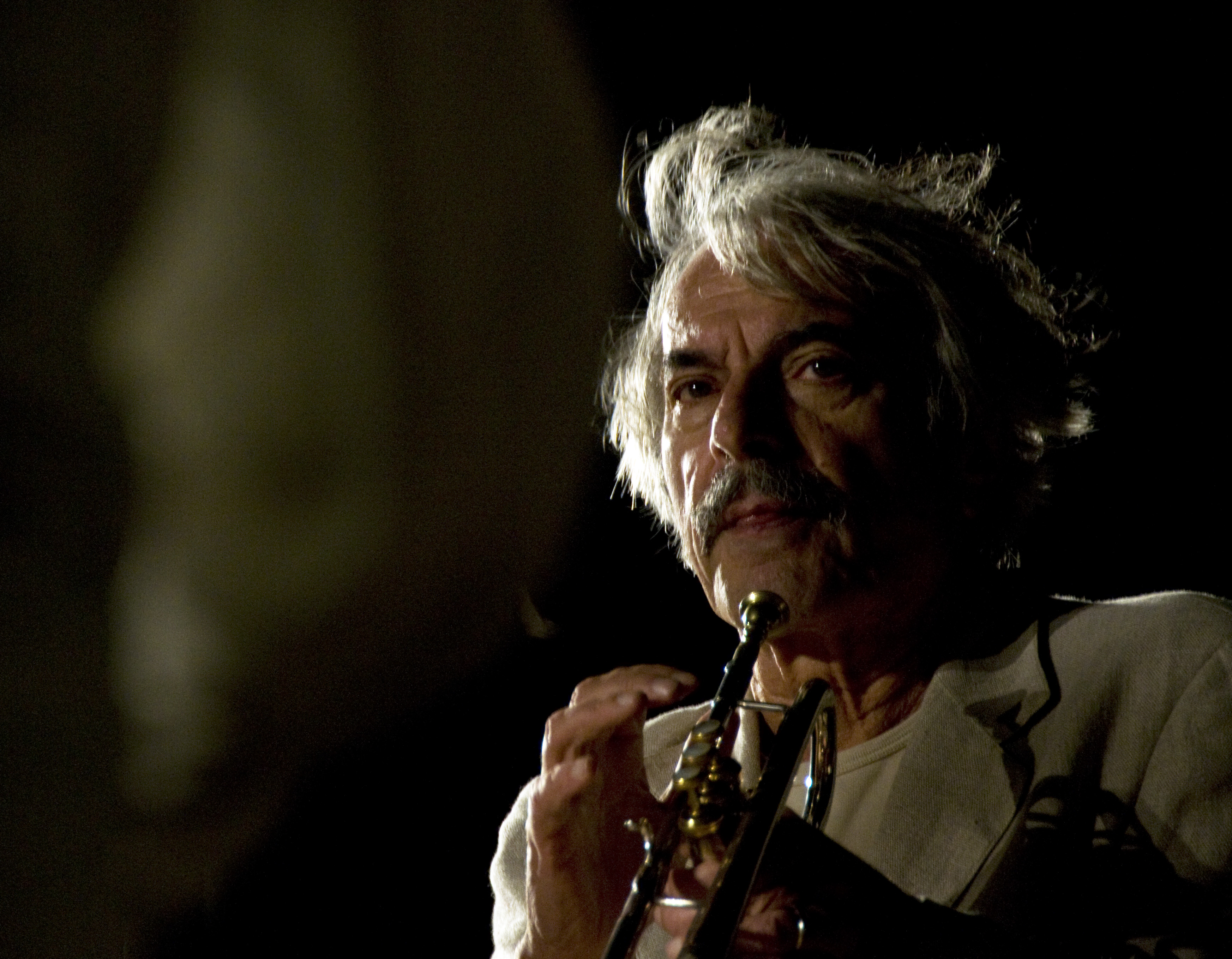 Enrico Rava by Alessandra Freguja